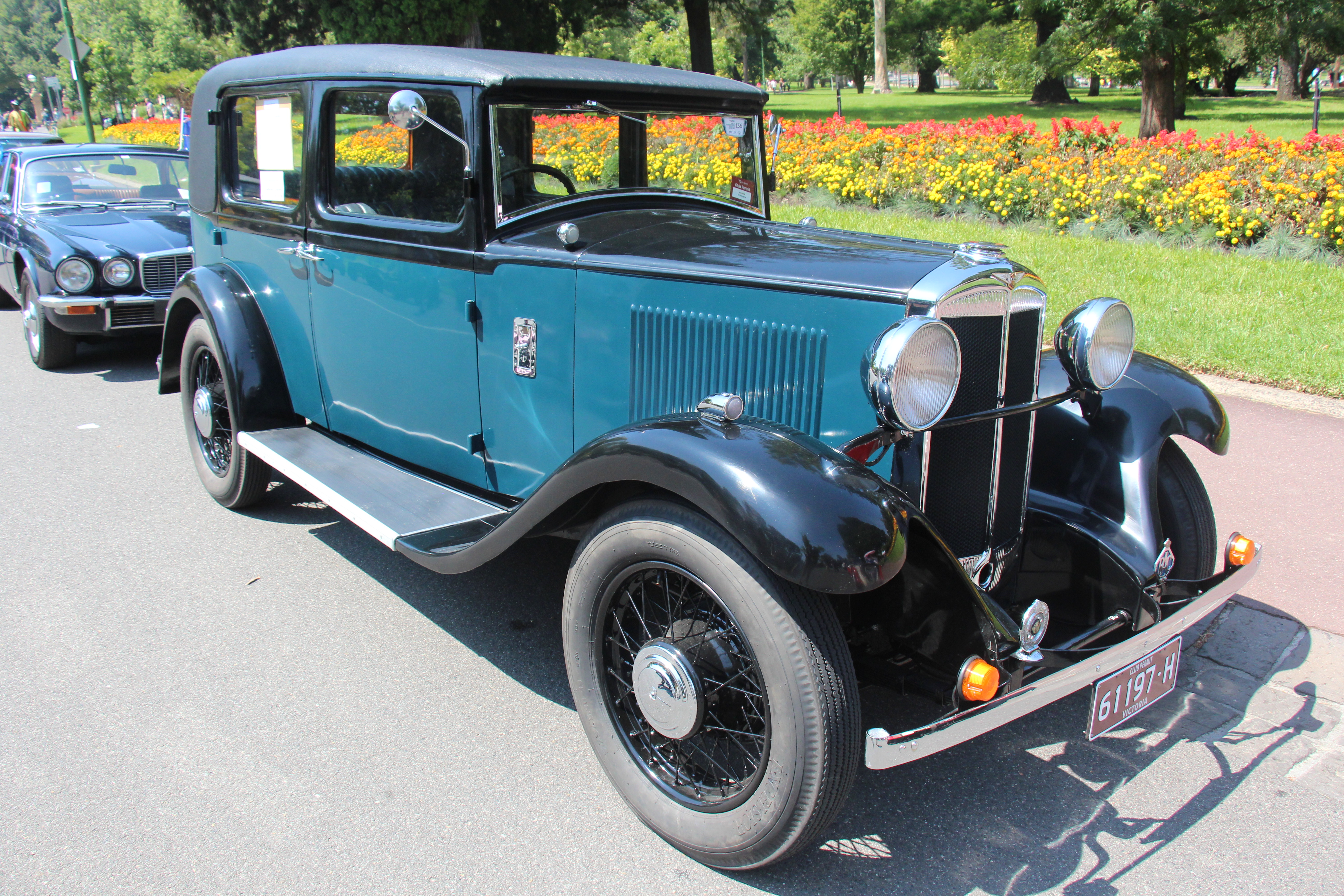 1932 Hillman Wizard 75 four-light saloon in Victoria Australia. Body: Martin & King (Melbourne – check) Source